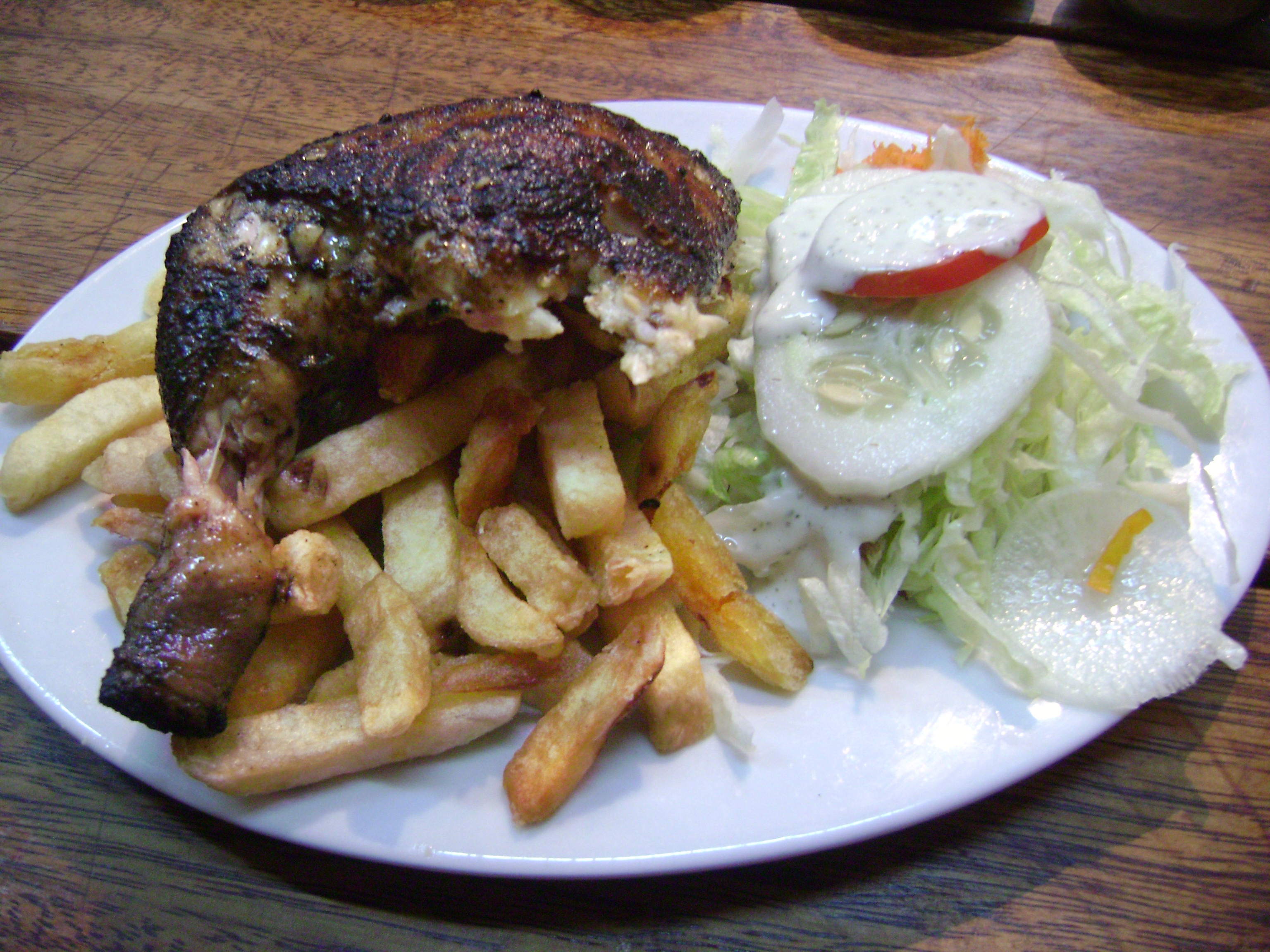 A portion of 'Pollo a la Brasa' served with chips and salda